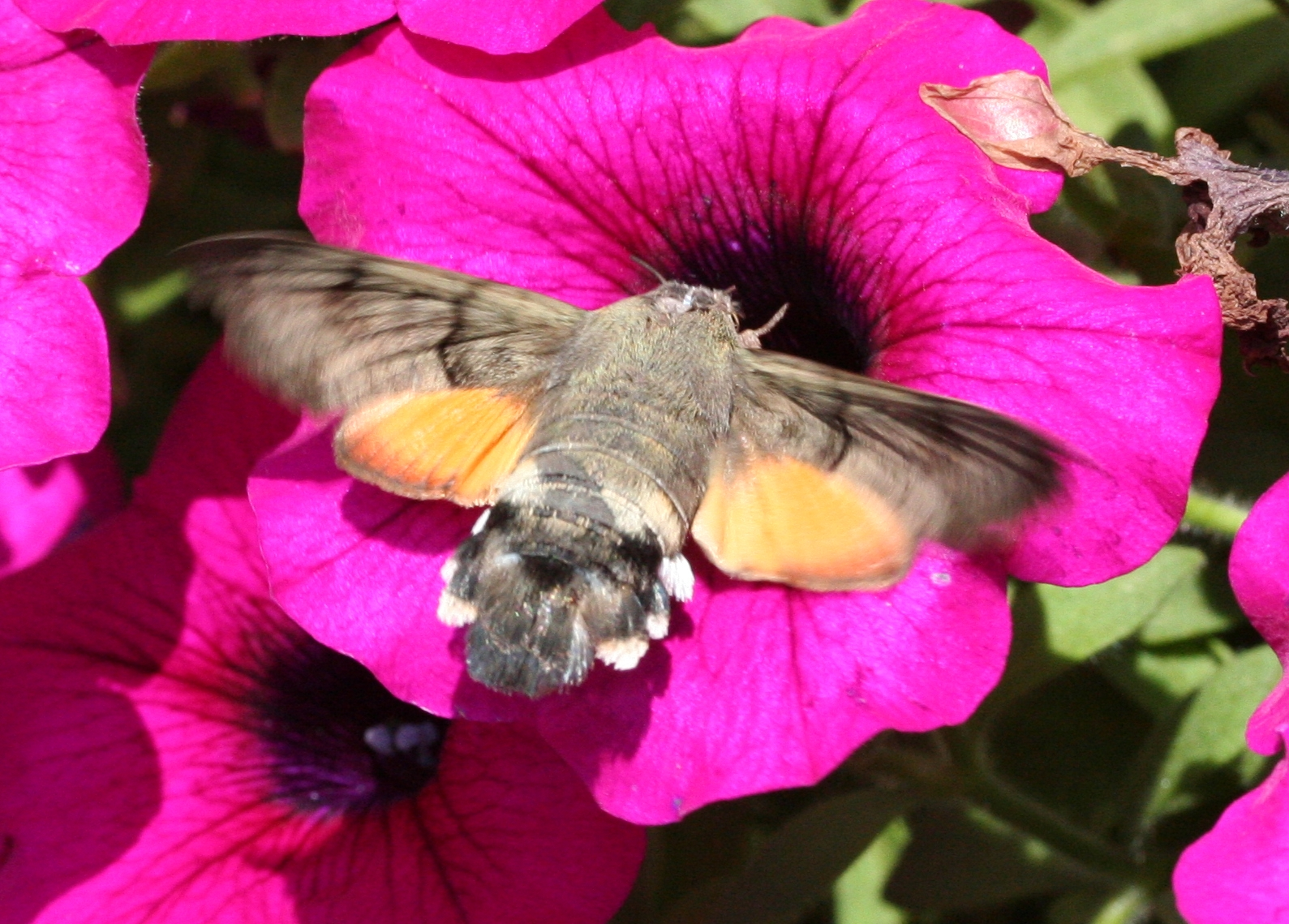 Macroglossum stellatarum 17 August 2006 IJmuiden, the Netherlands